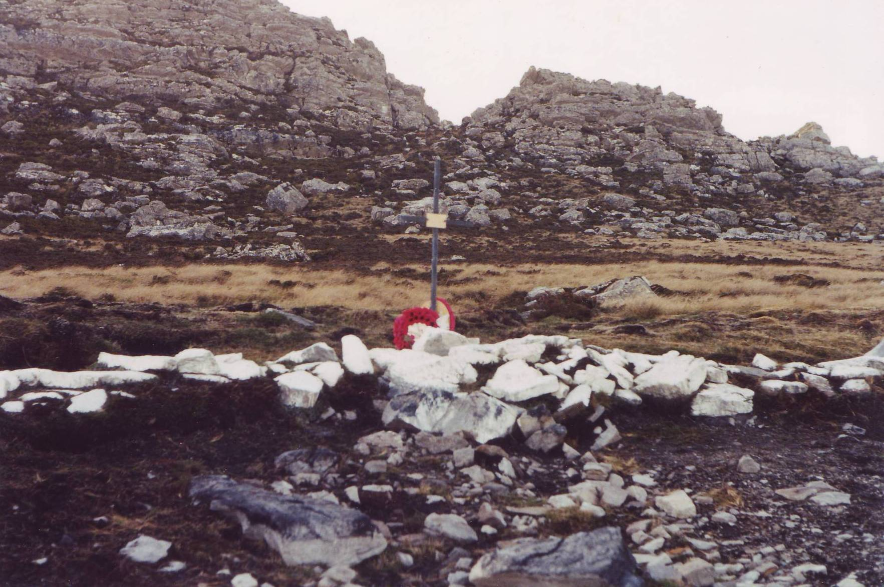 A memorial cross at the crash site of the Gazelle XX377 shootdown incident, Pleasant Peak, Falkland Islands. The white rocks spell the numbers "205" when the seen from the air, they refer to 205 Signal Squadron.